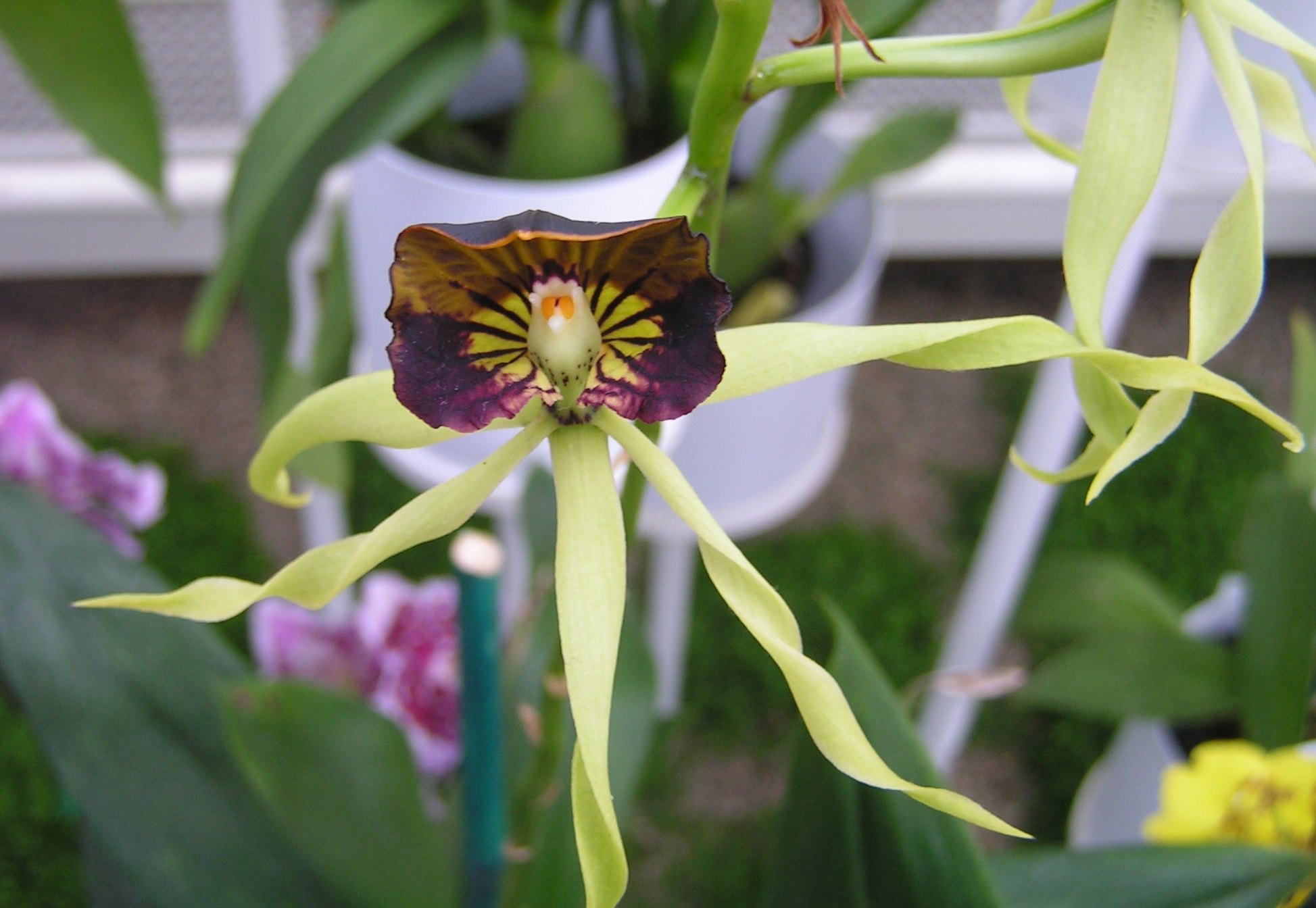 Encyclia Cochleata:An orchid